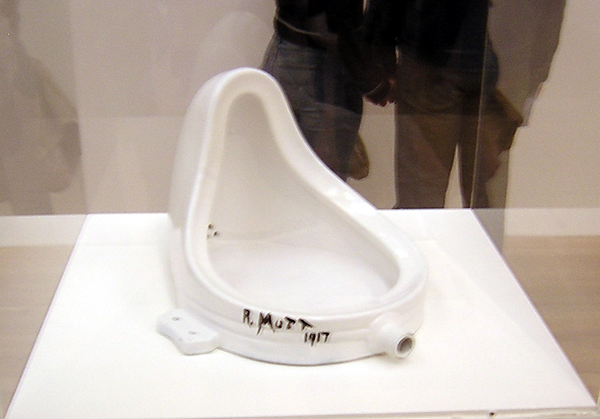 Marcel Duchamp's Fountain at Tate Modern by David Shankbone, London